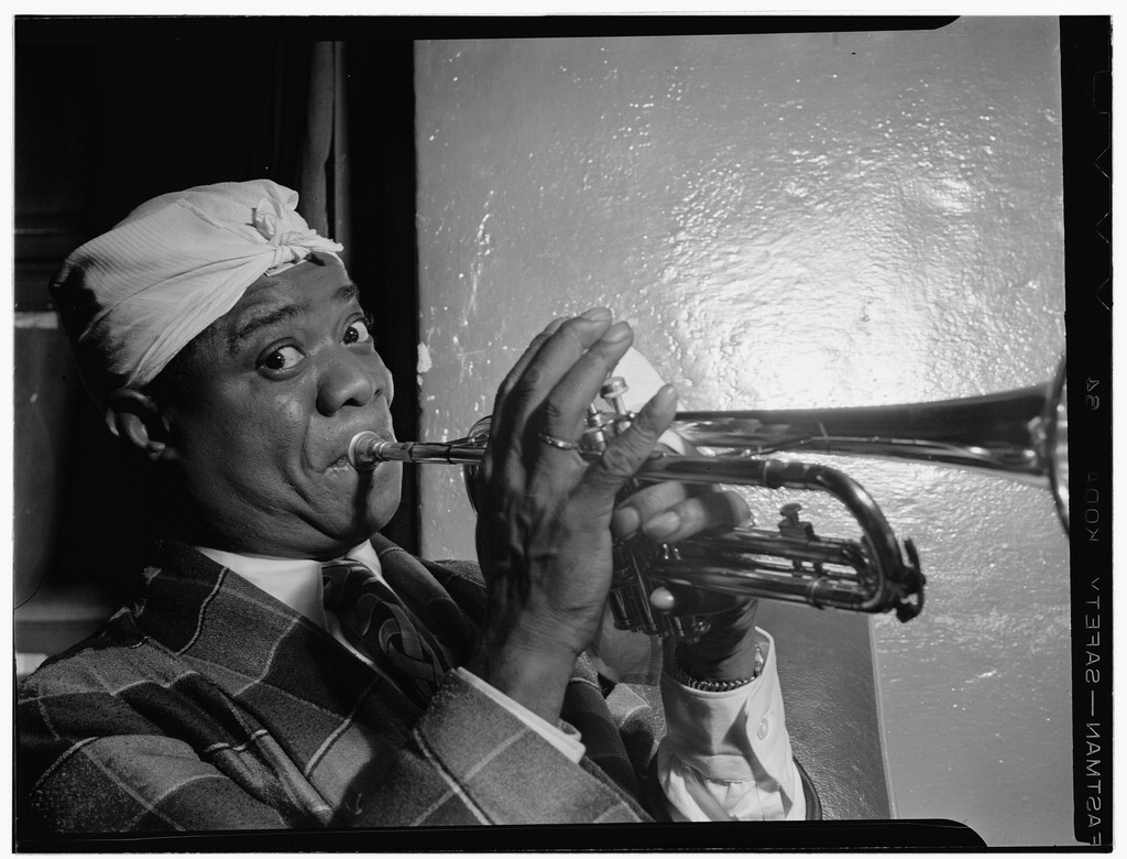 Louis Armstrong, Aquarium, New York